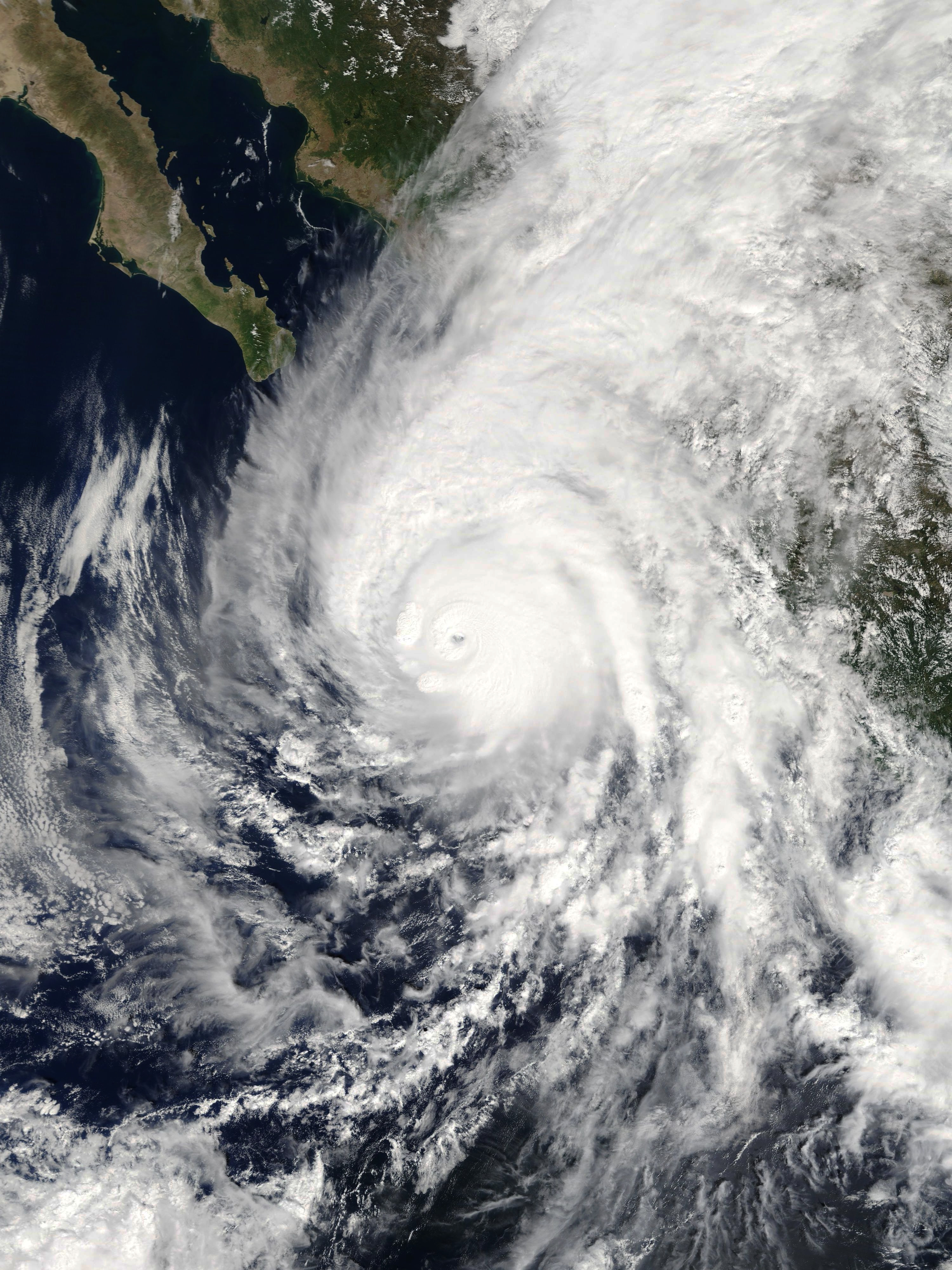 Hurricane Willa on October 22, 2018